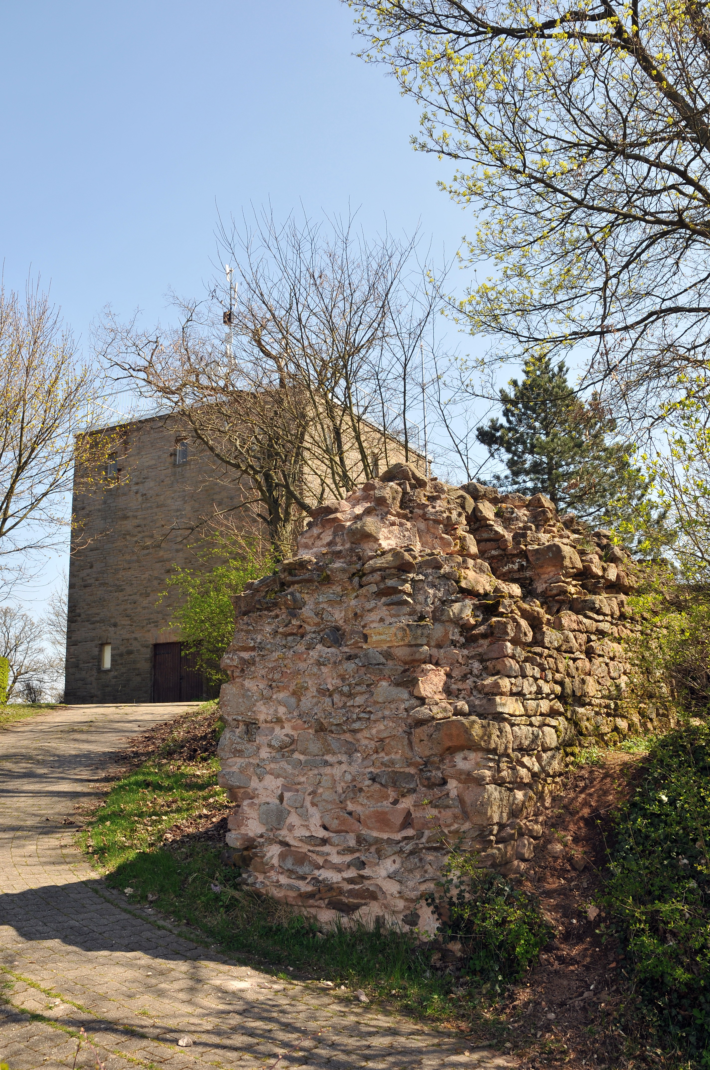 Remains of Castle Ruppertsecken with new Tower.